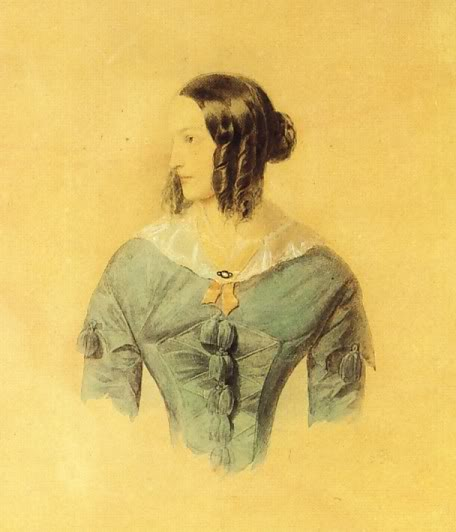 Goncharova Aleksandra Nikolayevna